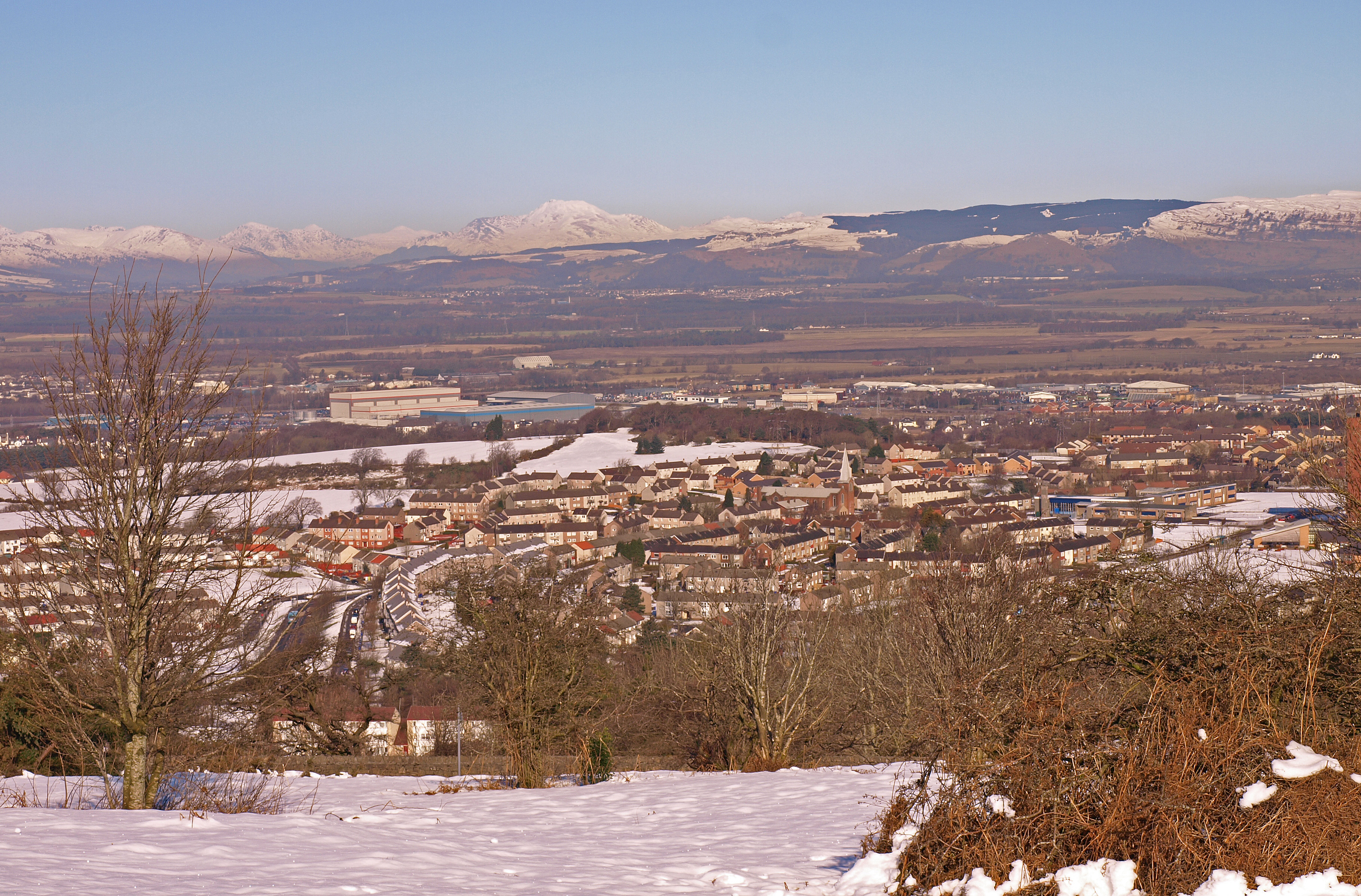 View from Robertson Park, Gleniffer Braes Looking over Foxbar to Ben Lomond. A very frosty day and the haze just starting to form in the lower land.